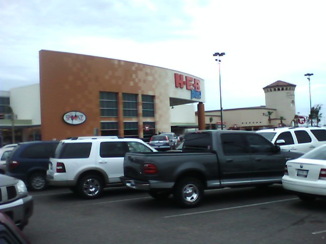 H-E-B Plus in Laredo, Texas